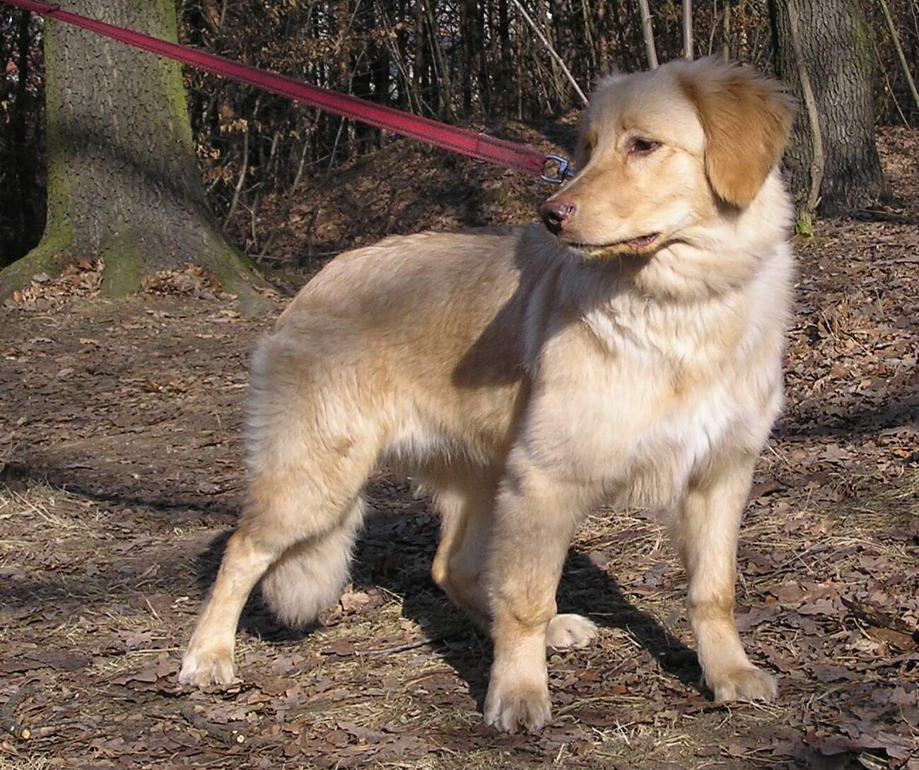 Half year old female, blond. Author Karakal